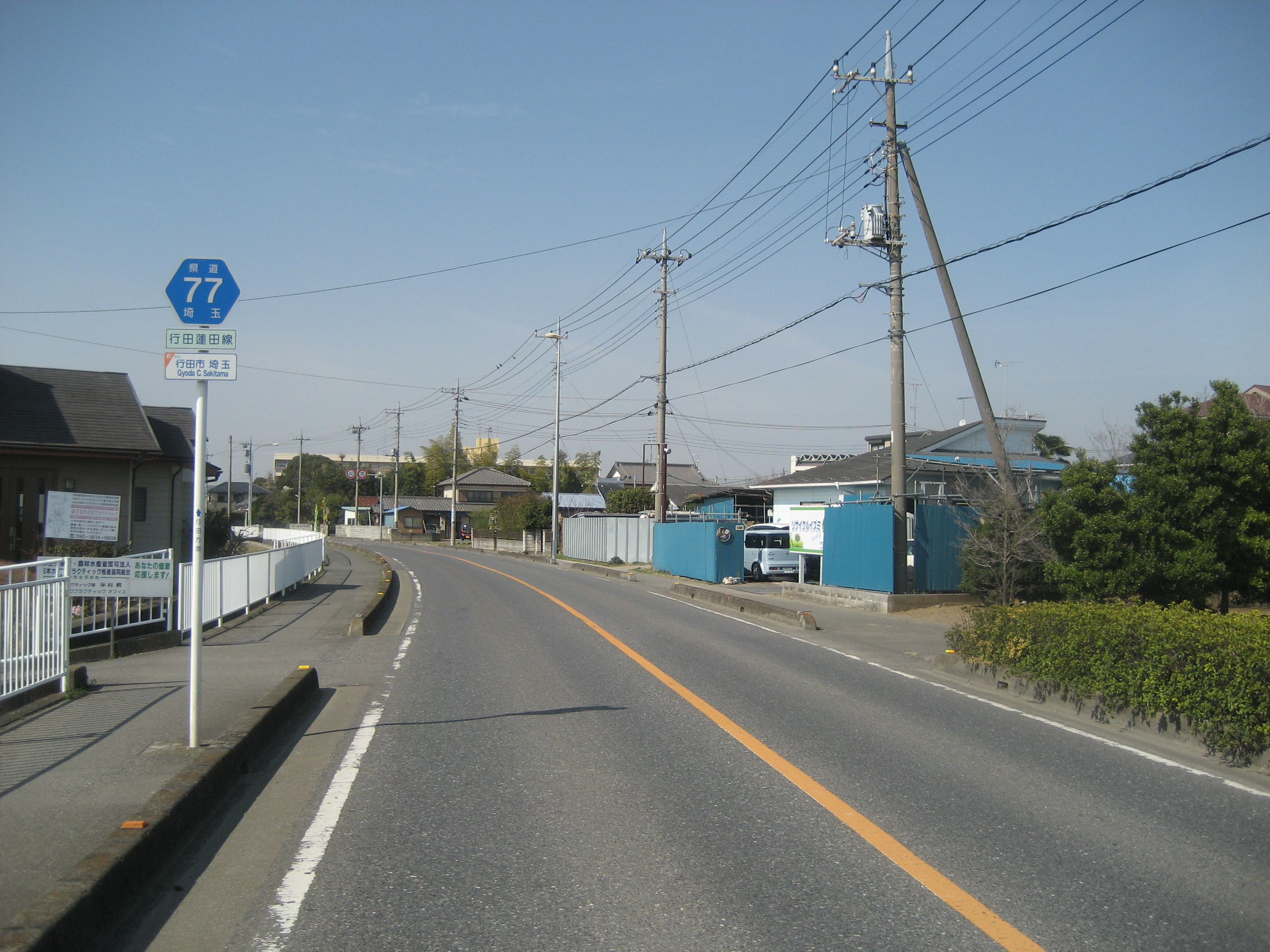 The Saitama Prefectural Road Route 77 in Sakitama, Gyoda City